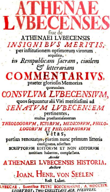 Title page of Johann Henrich von Seelen: Athenae Lubecenses